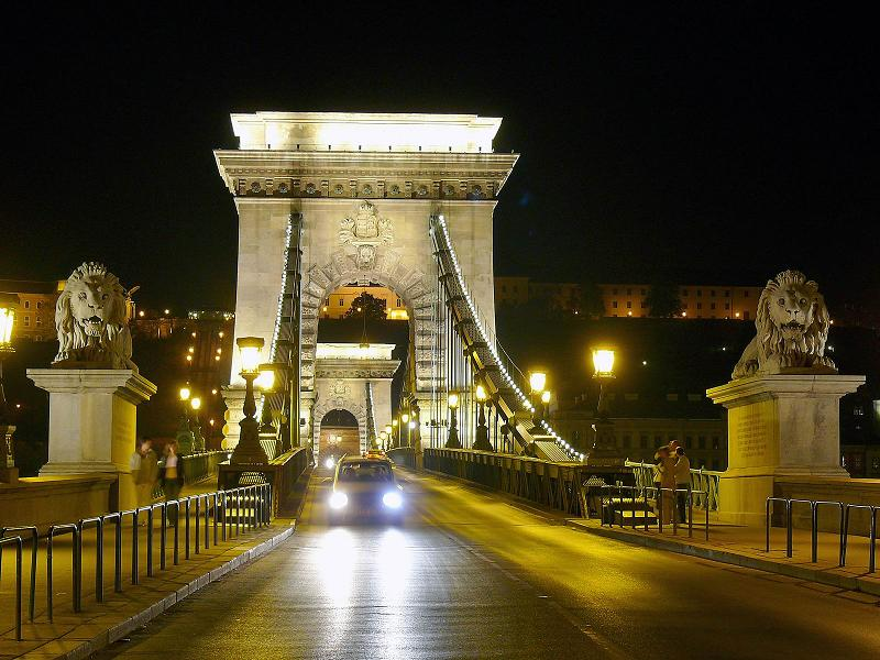 The Chain Bridge in Budapest